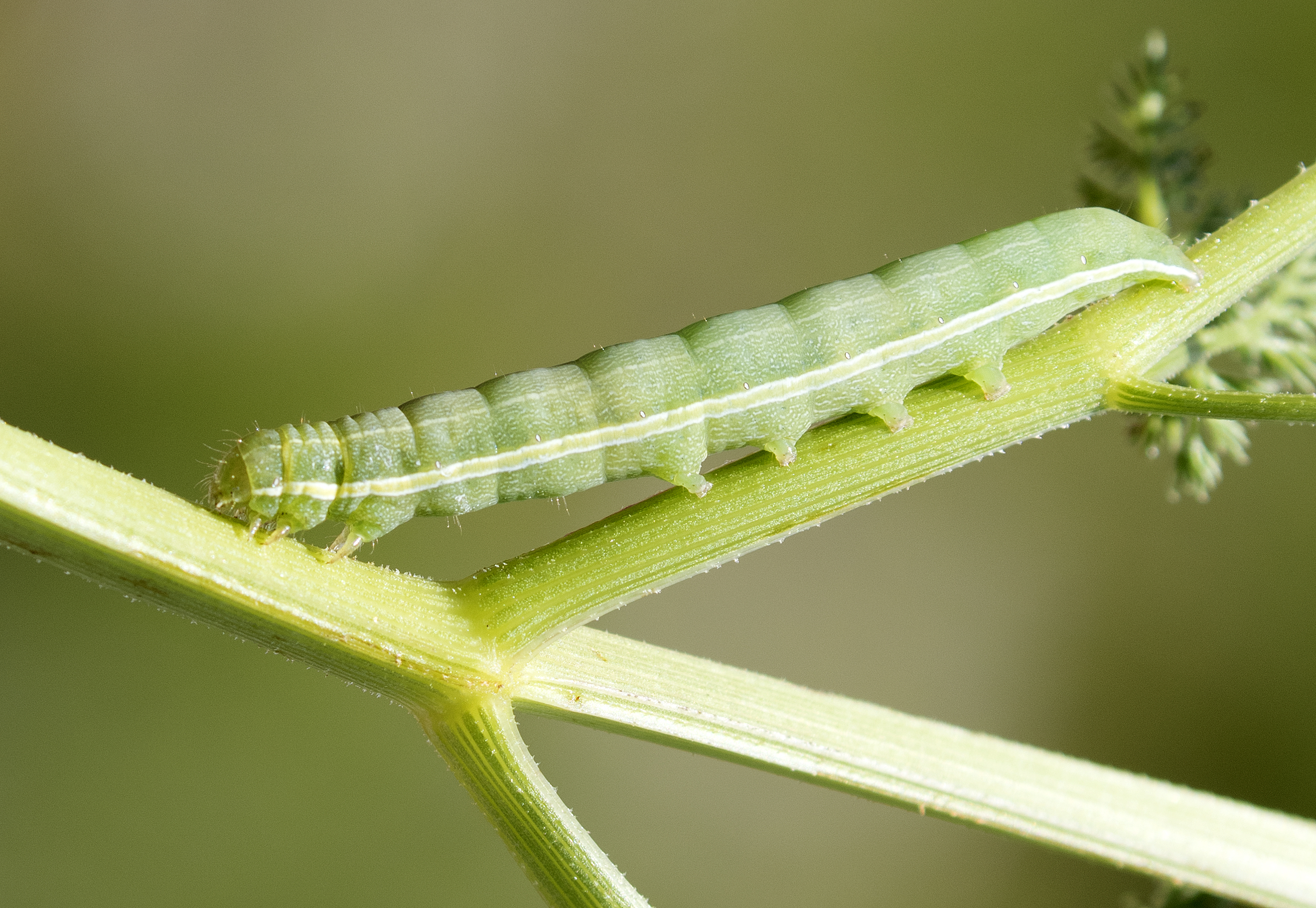 Brown-spot Pinion (Agrochola litura). Karasakal Mt, Tufanbeyli - Adana, Turkey.